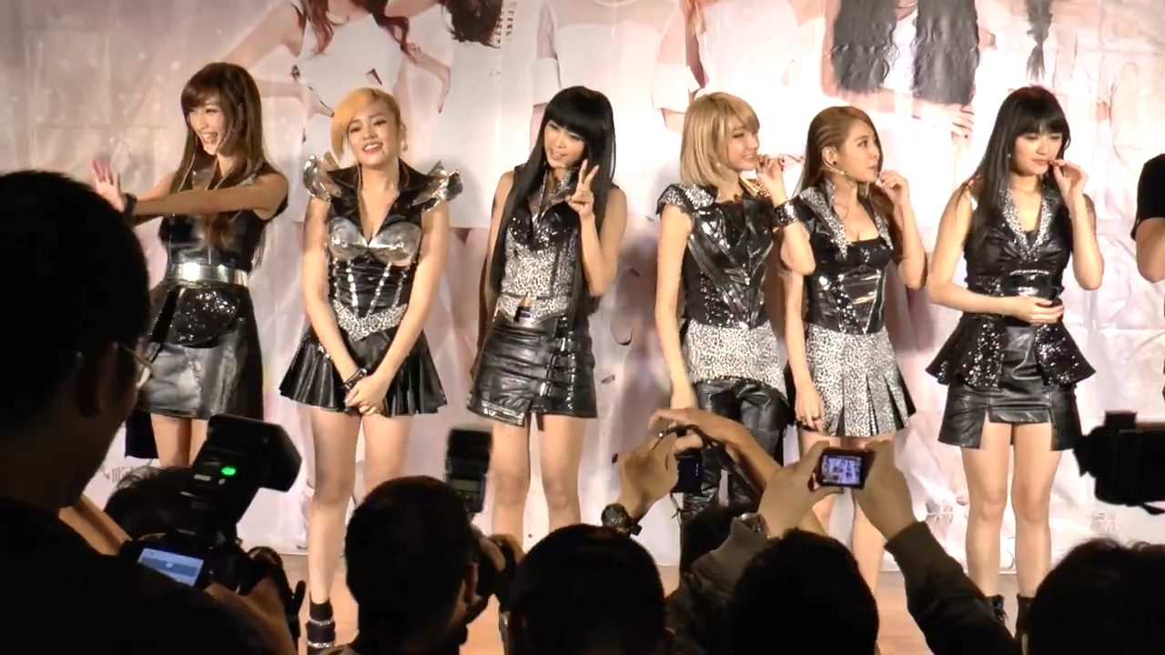 Weather Girls perform at Fengjia Fun Star Plaza (逢甲歡樂星), Taichung, Taiwan, 2014-11-23.